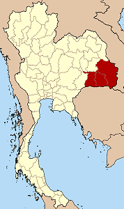 Map of Thailand showing the extent for the Monthon Ubon Ratchathani as of 1915.